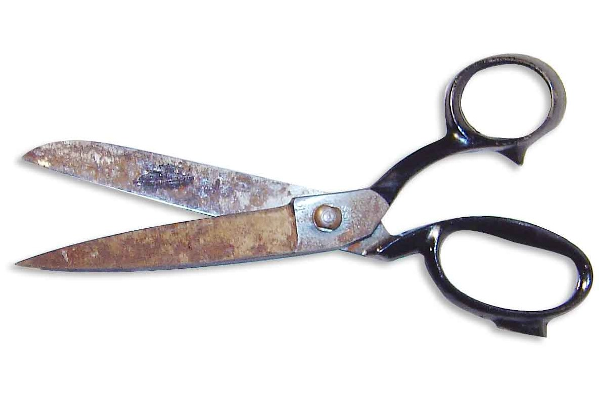 Scissors